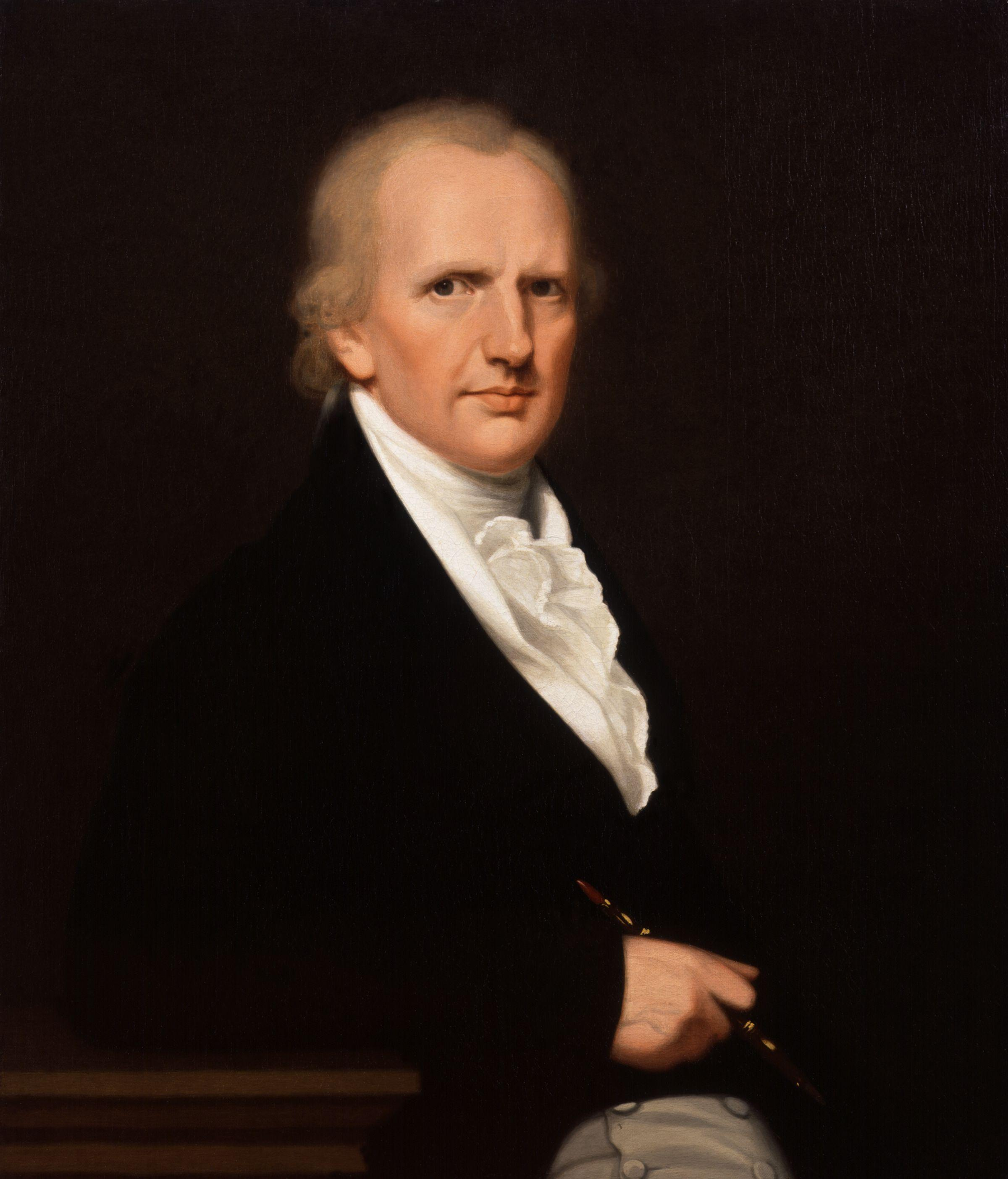 Robert Home, by Robert Home (died 1834), given to the National Portrait Gallery, London in 1943. All images in this batch have been confirmed as author died before 1939 according to the official death date listed by the NPG.